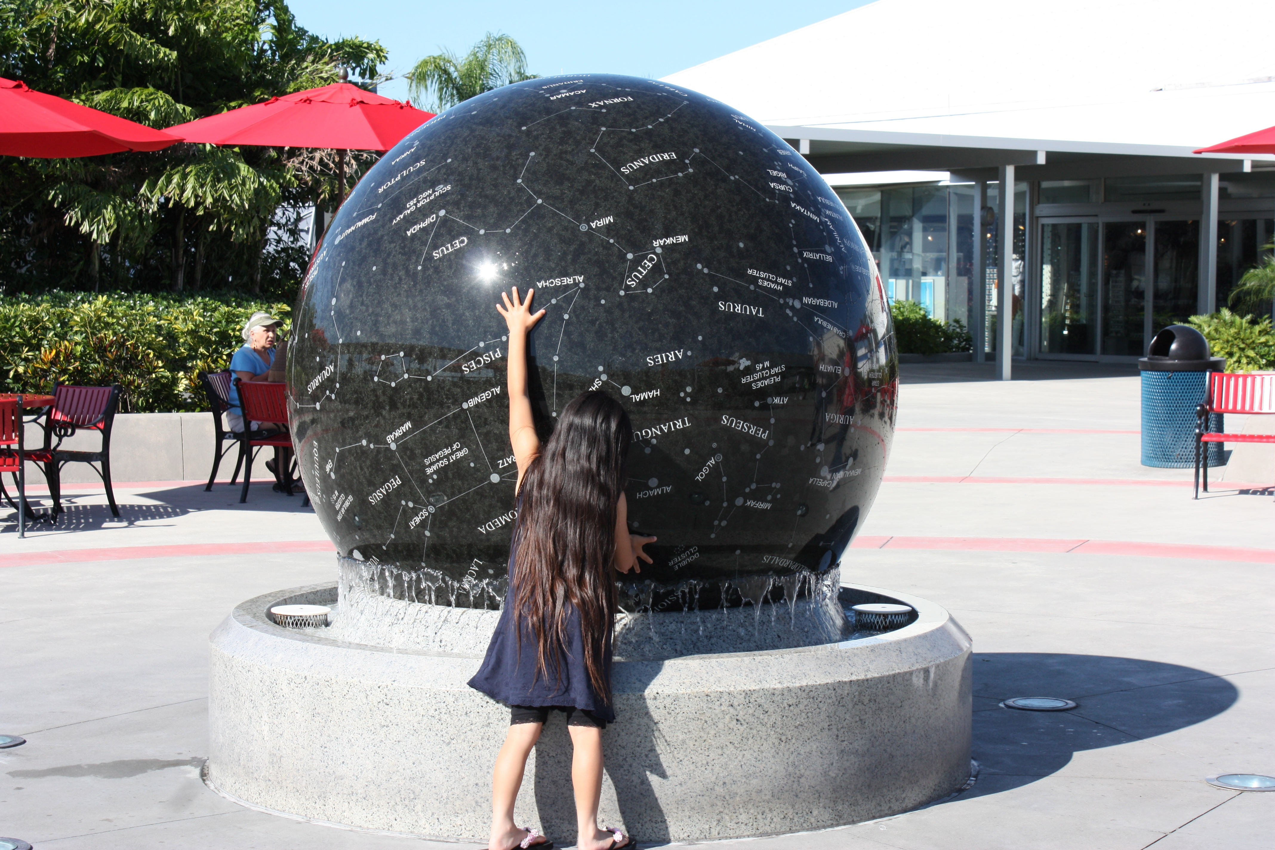 This little girl was playing with the Constellation Sphere. The ball weighs 9 tons, but floats on a fountain that makes it possible for a person to roll it.